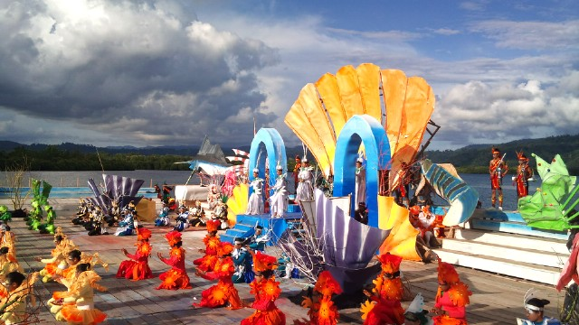 Jailolo Bay Festival, Halmahera, Indonesia